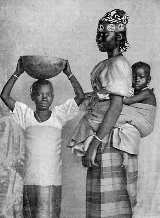 Wolof woman and her children